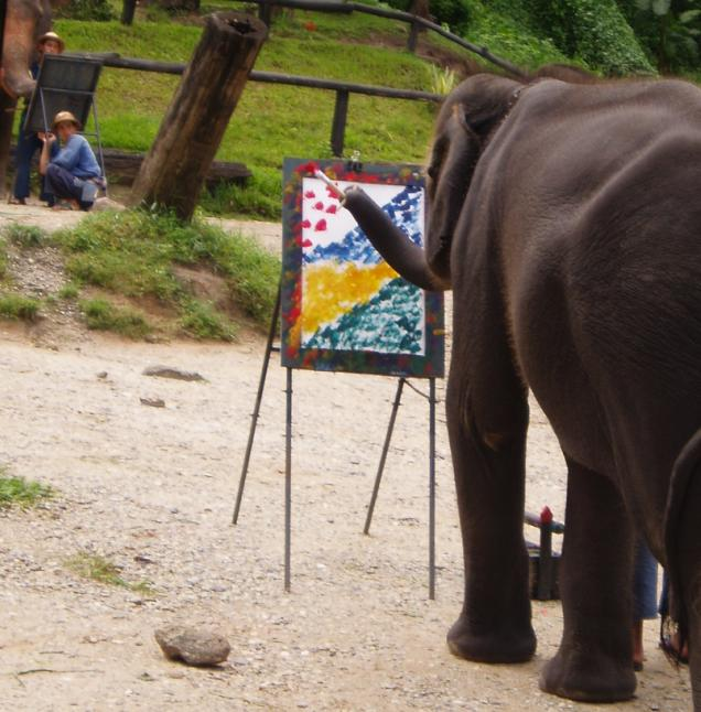 An elephant painting in Chiang Mai, Thailand.